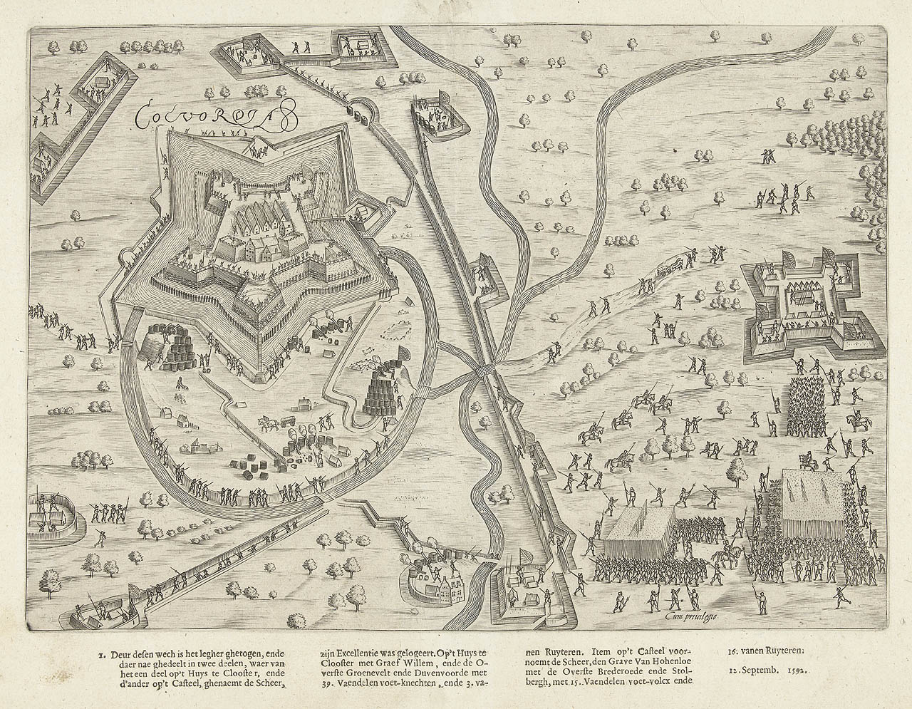 The siege of Coevorden in 1592 by Maurice and William-Louis of Naussau.